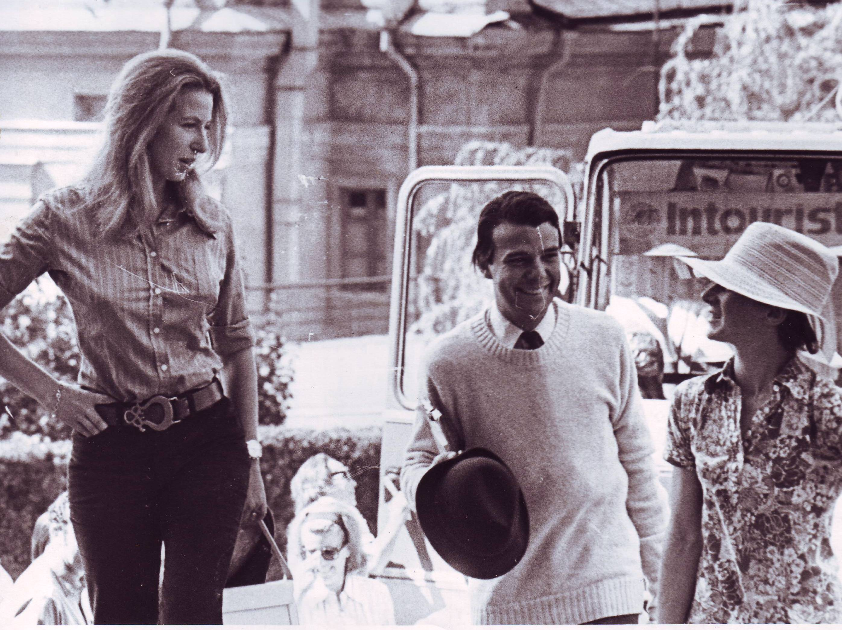 Анна (принцесса Великобритании) в Киеве возле гостиницы в середине 1970-х гг.